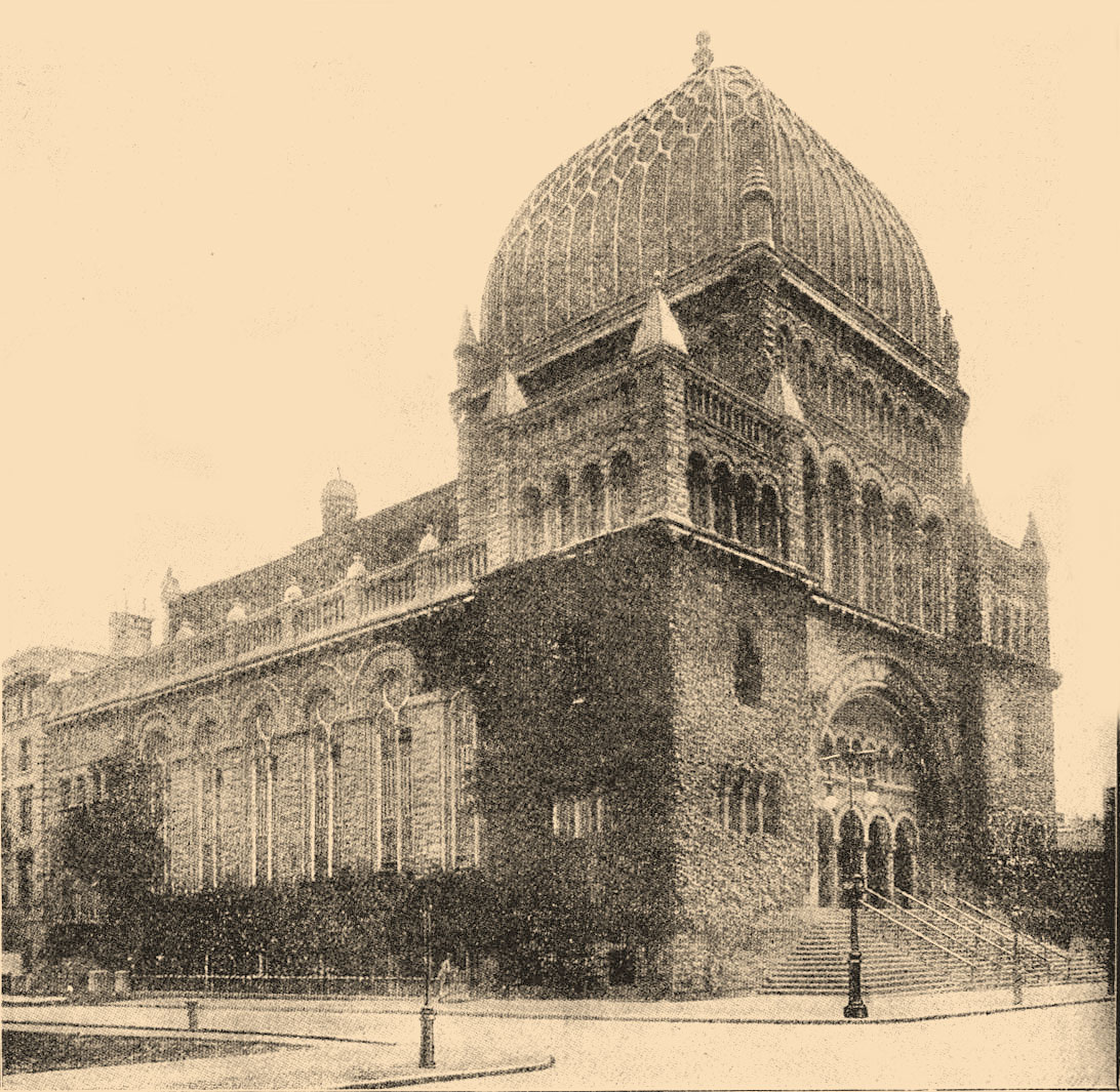 Illustration from Brockhaus and Efron Jewish Encyclopedia (1906—1913). The one-time Temple Beth-El, Fifth Ave. and 76th Street, New York City. The congregation merged with Congregation Emanu-El in 1927.